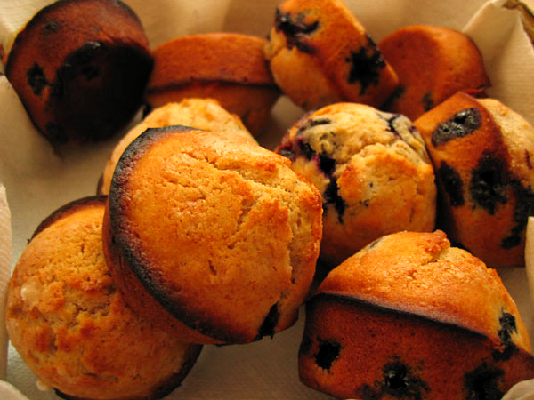 Mini blueberry muffins.